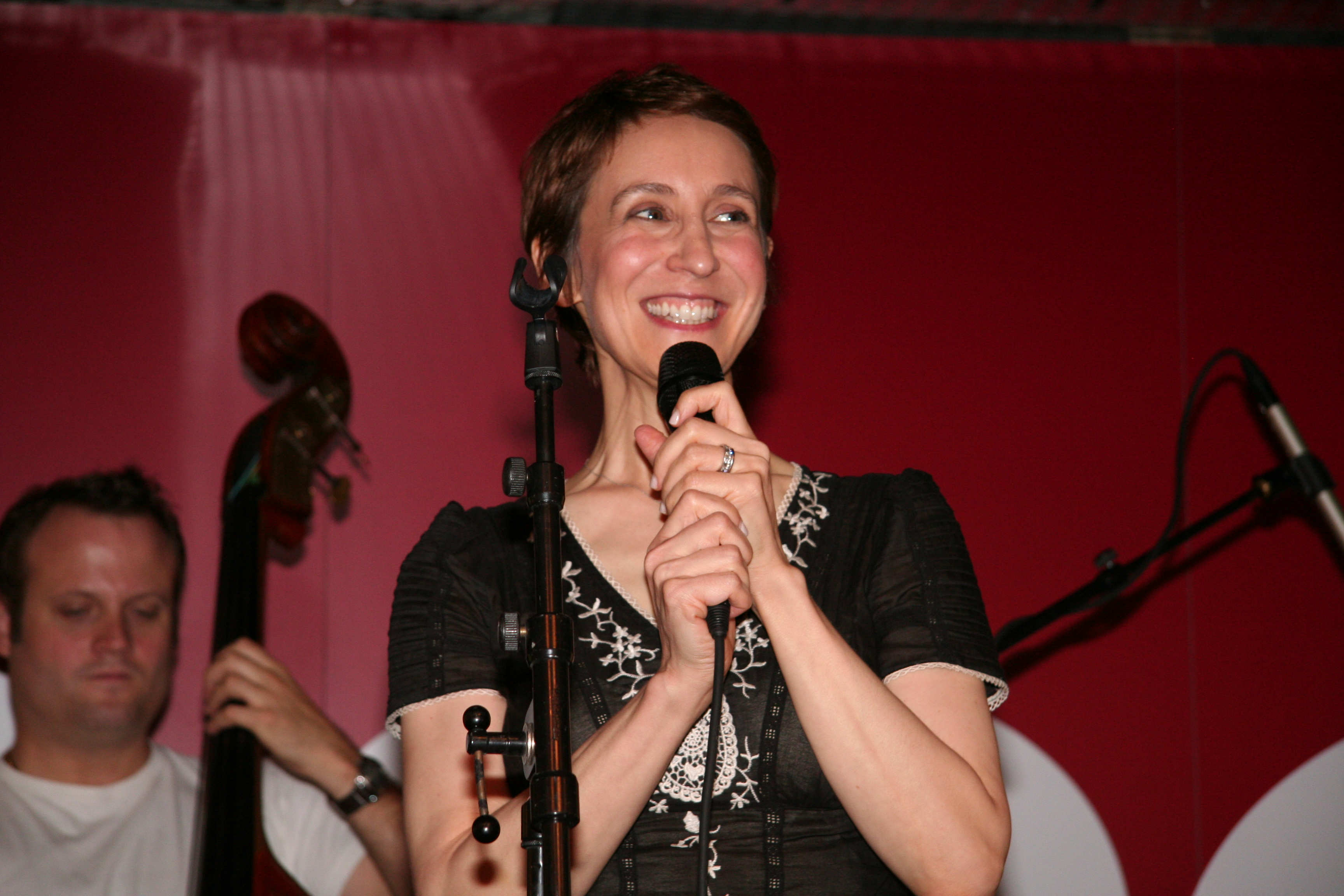 Show-case with Stacey Kent at Fnac Montparnasse (Paris, France).